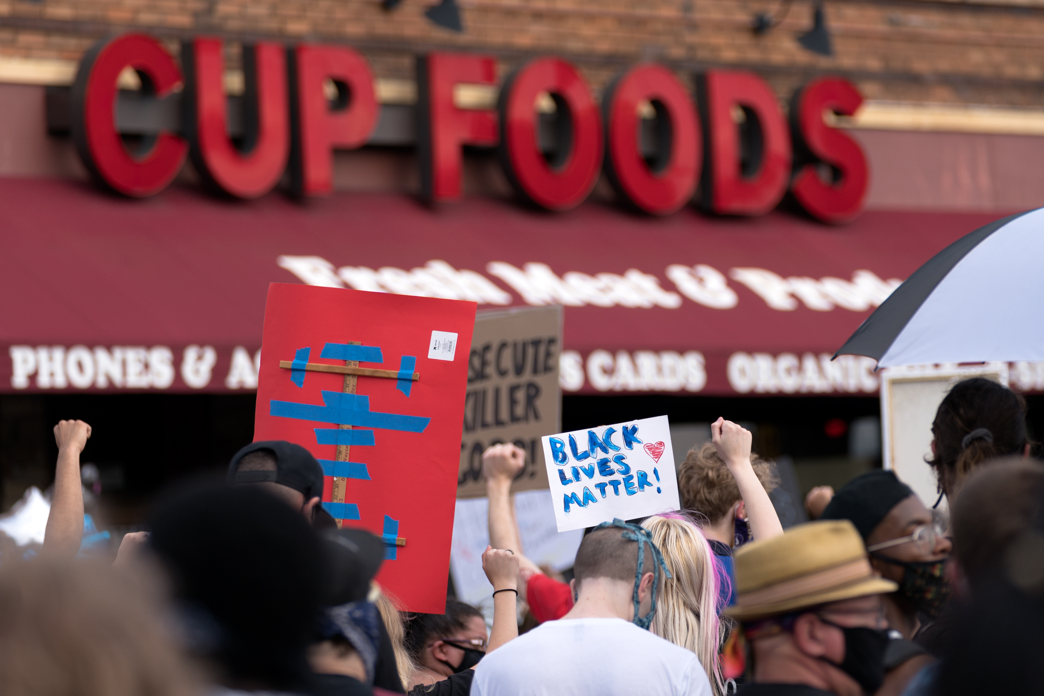 On May 26, 2020, people protested against police violence after the death of George Floyd on the previous day. Protesters gathered in front of Cup Foods, outside which Floyd was killed.